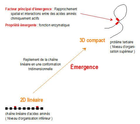 Example of emergence